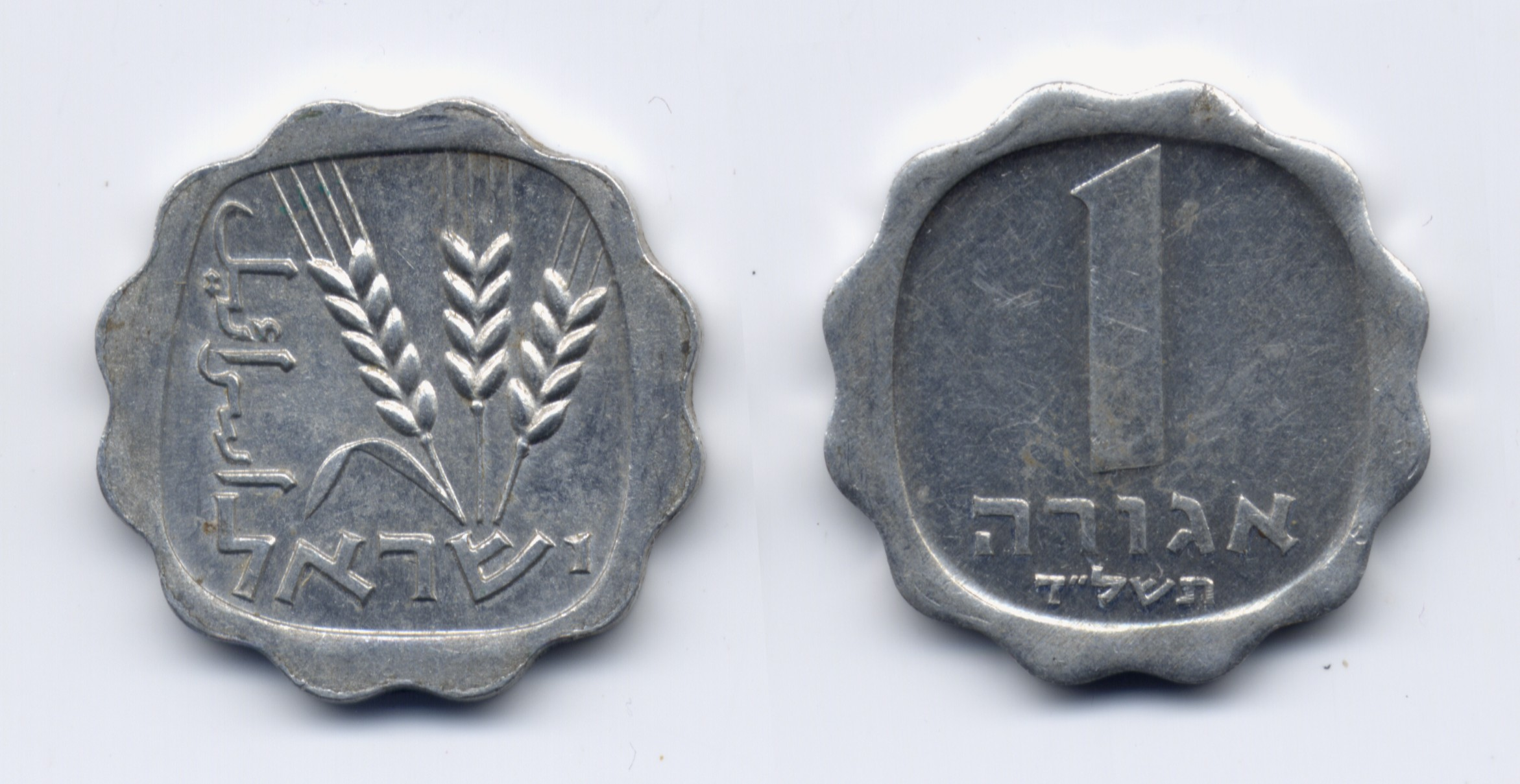 One Israeli Agora, from the Israeli Pound series, year התשל"ד.